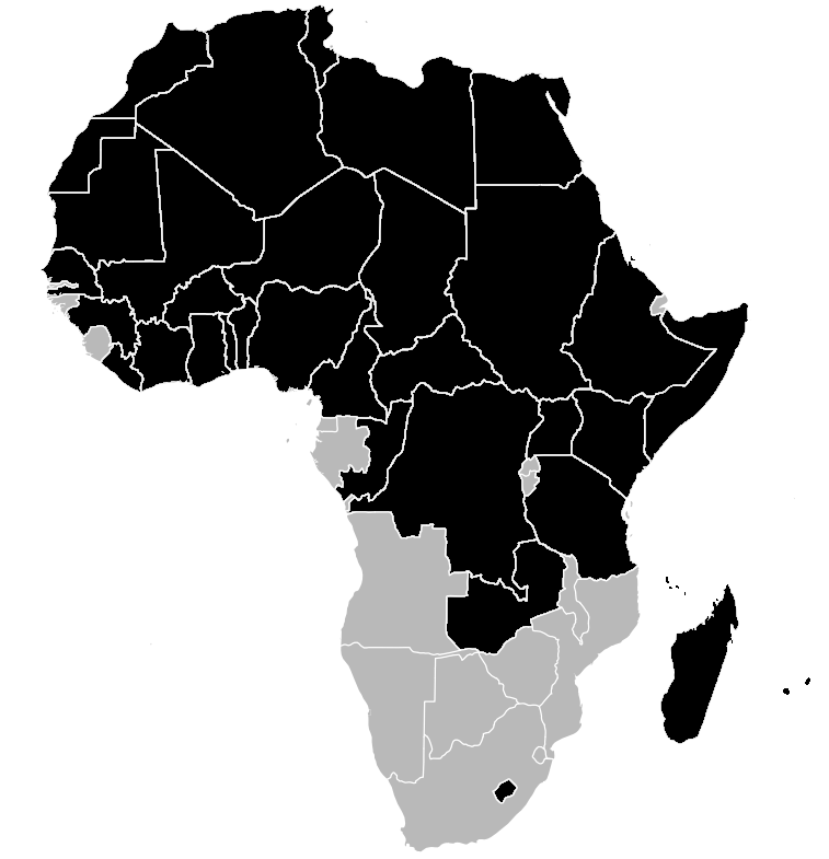 1966 FIFA World Cup boycotting African countries (black color on the map)